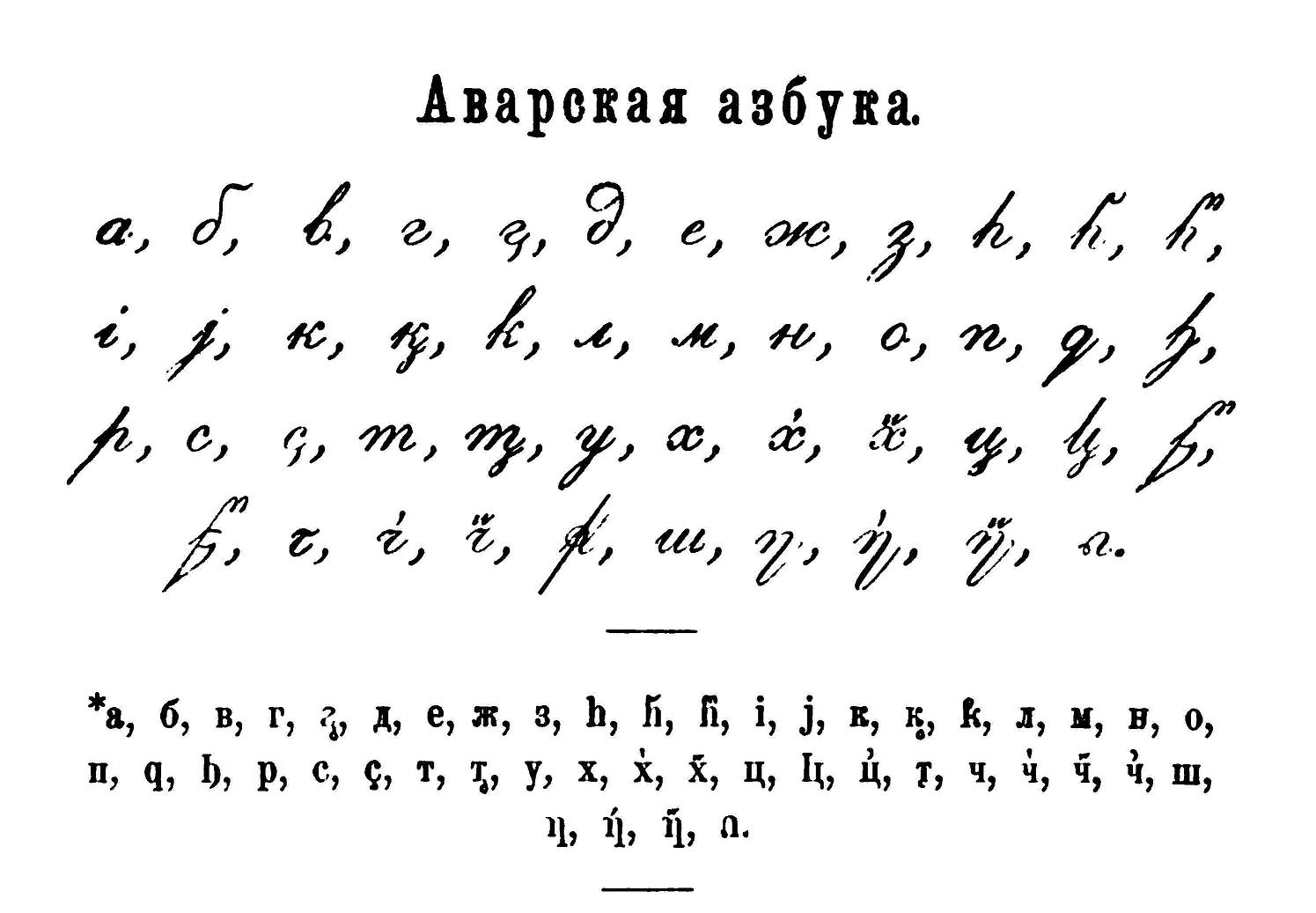 Alphabet from Peter Uslar's Avar Grammar (1889)